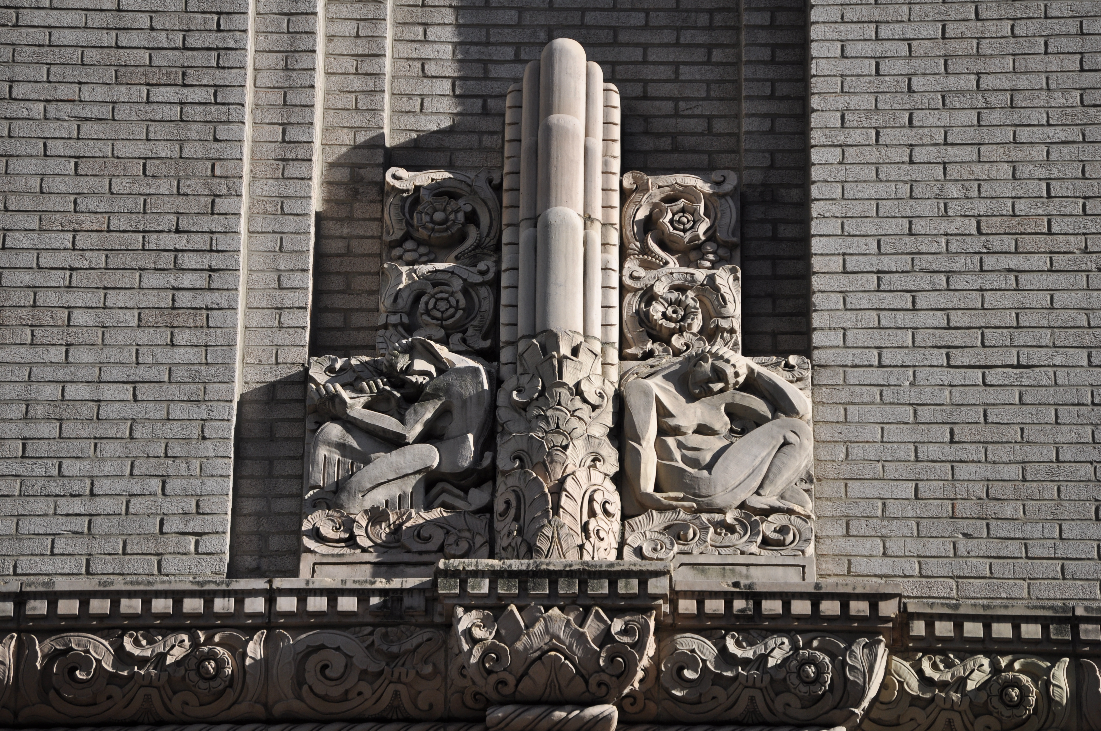 Detail of Washington Athletic Club, Seattle, Washington, USA. The building is an official city landmark.